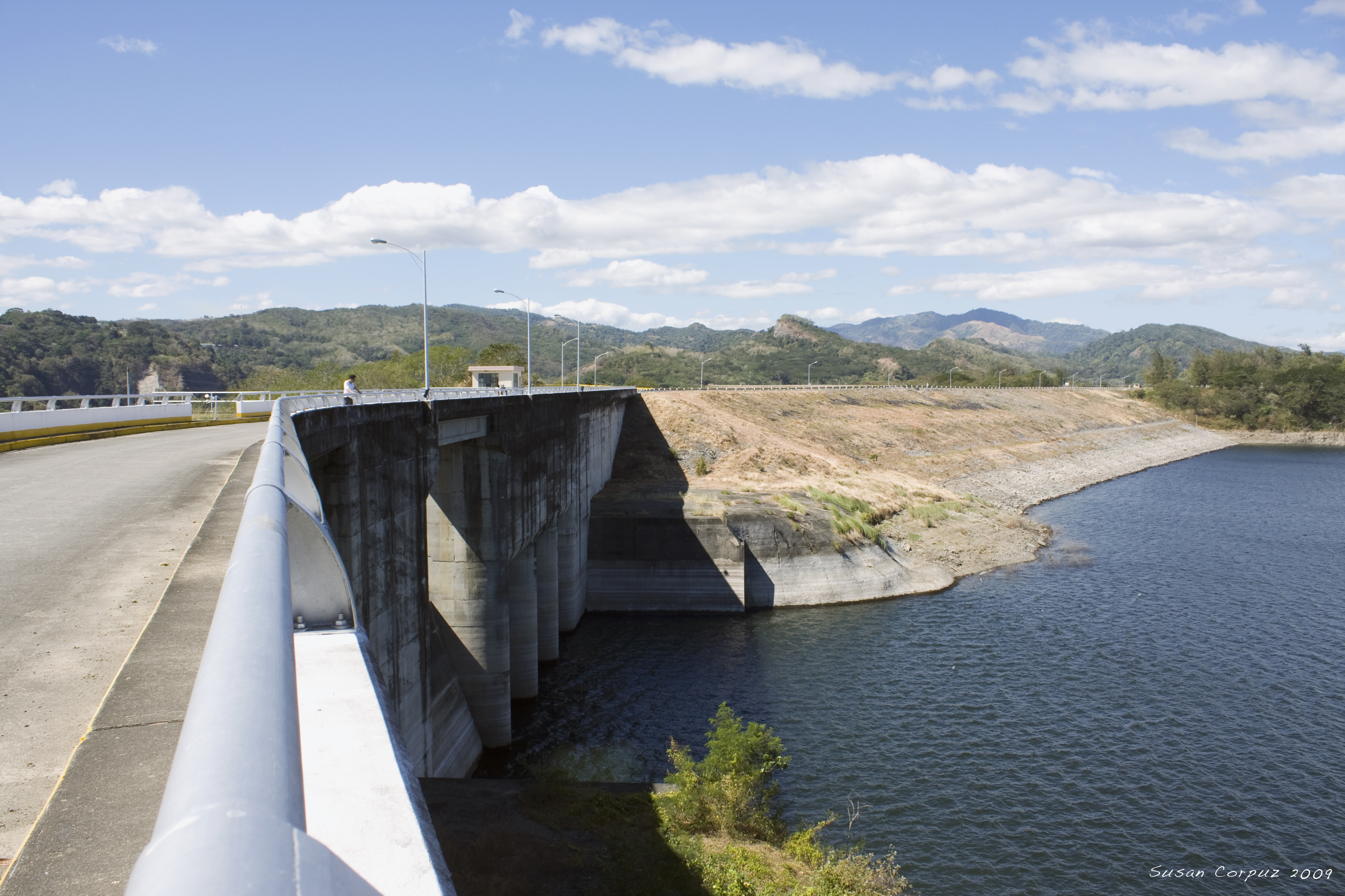 A view of the spillway and auxiliary dam of the Pantabangan Dam in the Philippines.